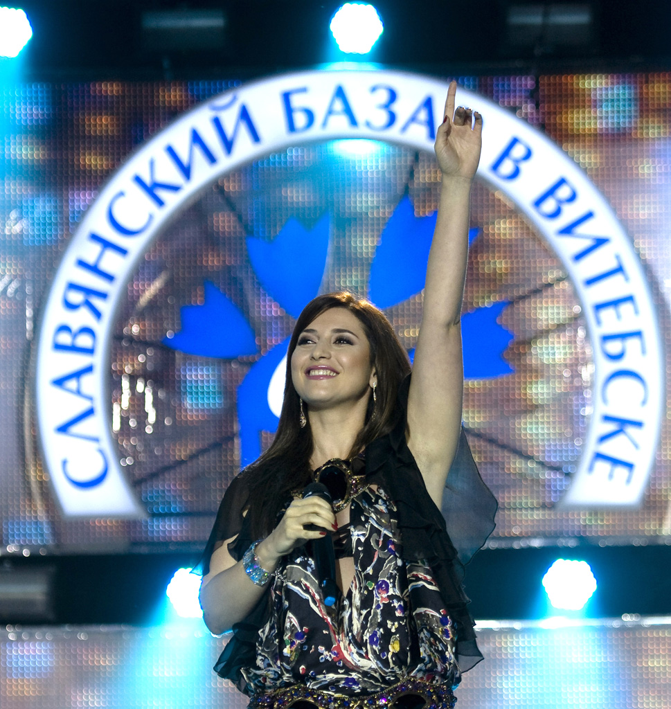 “XIX International Arts Festival The Slavic Bazaar in Vitebsk”. Singer Jasmine at the concert "Two sisters - Belarus and Russia, held on the Union State Day at the XIX International Arts Festival The Slavic Bazaar in Vitebsk.